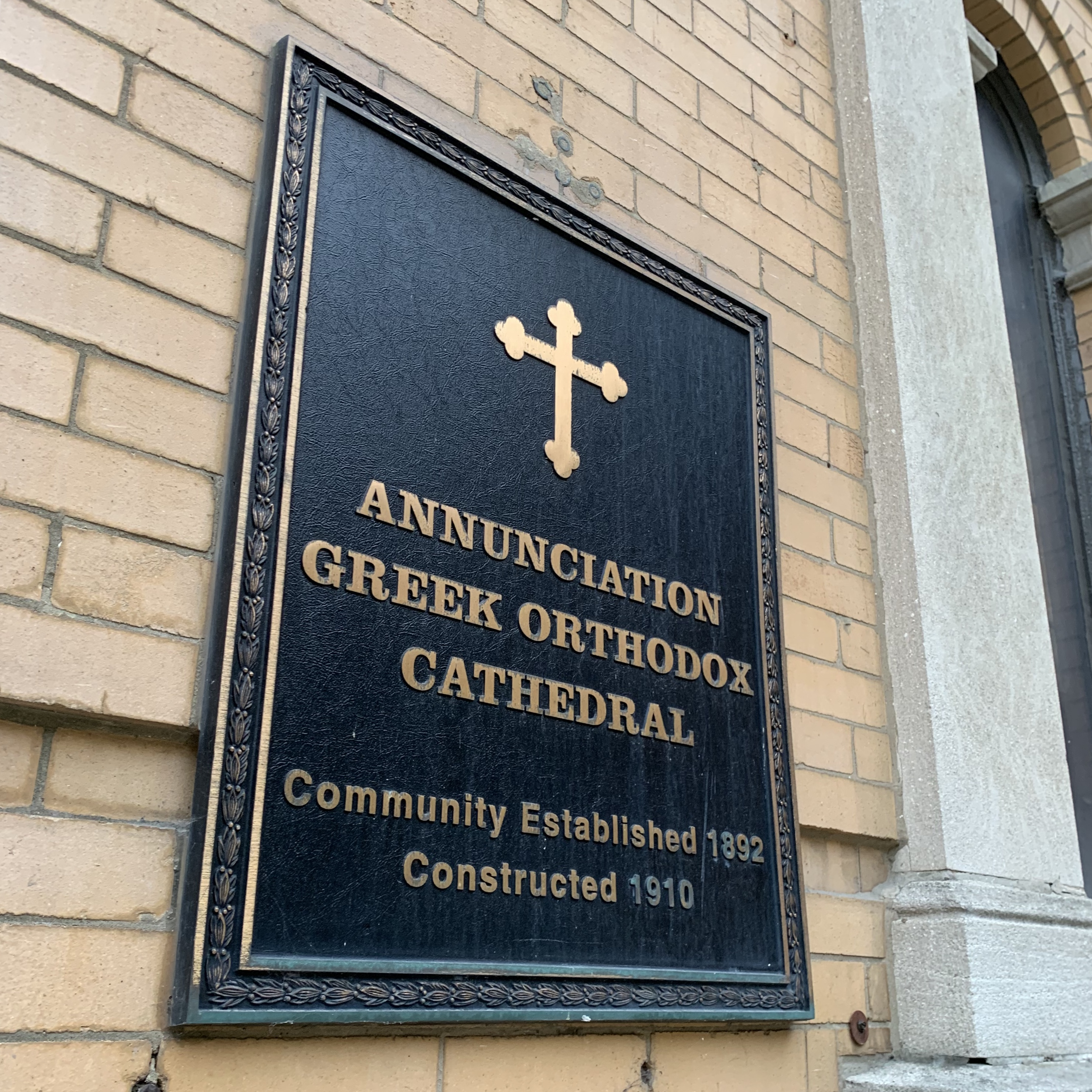 Plaque of Annunciation Greek Orthodox Cathedral (Chicago), 2019